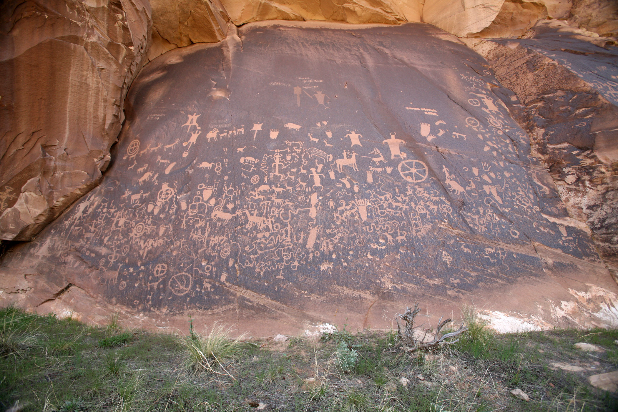 Newspaper Rock near Moab, UT.